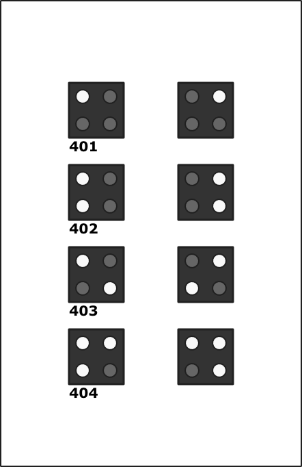 Diagrams of railway signals in Switzerland